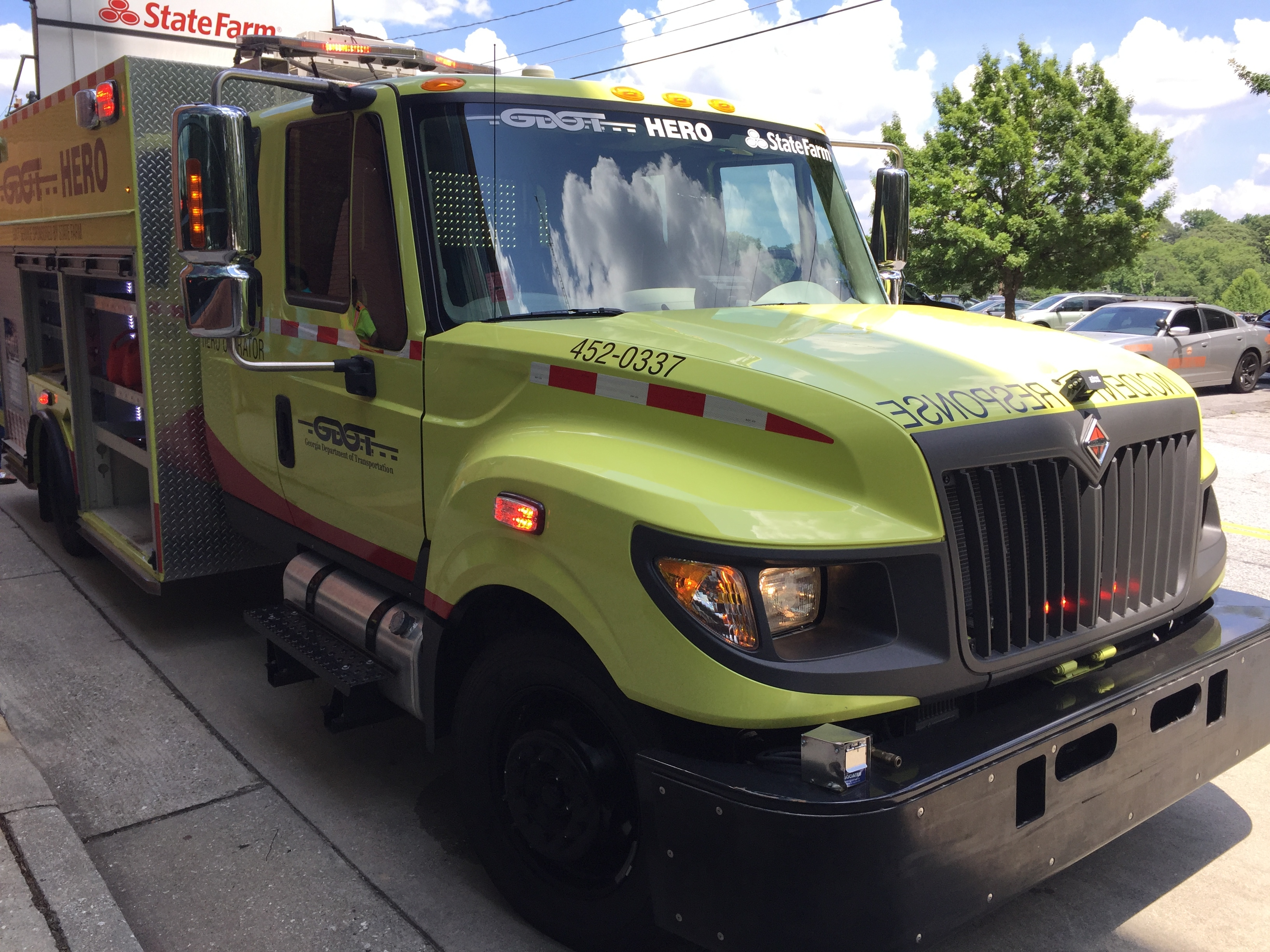 Highway Emergency Response Operator truck in Atlanta